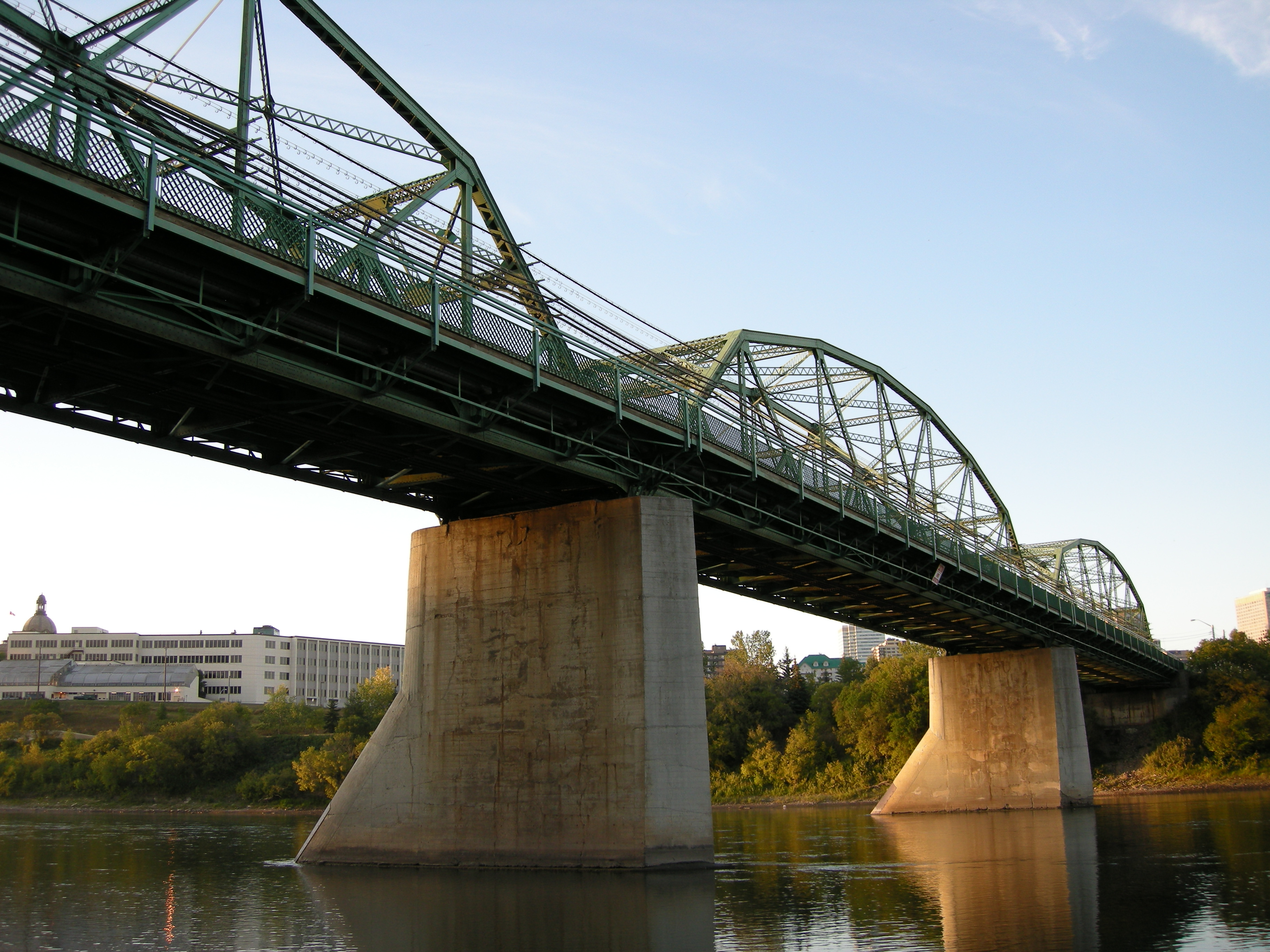 This is a shot of the Walterdale Bridge in Edmonton Alberta Canada as of 2007. Taken by Steven Mackaay.